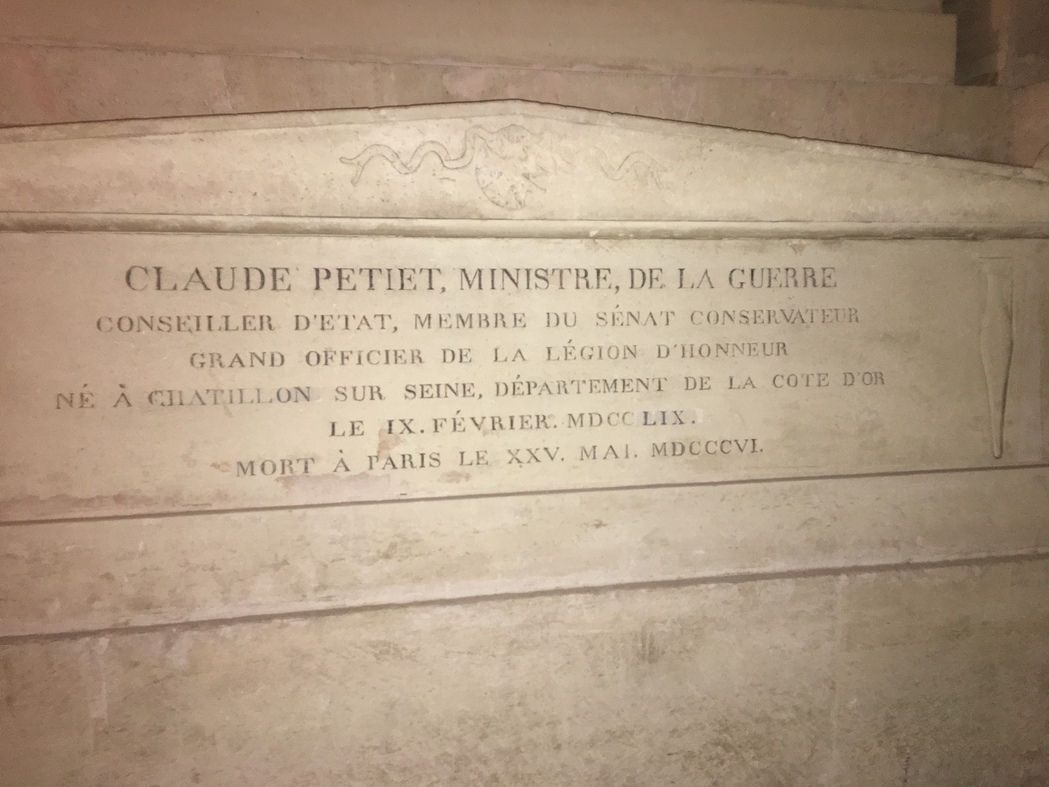 Tombstone of Claude-Louis Petiet in the Pantheon of Paris, Cellar V (front)